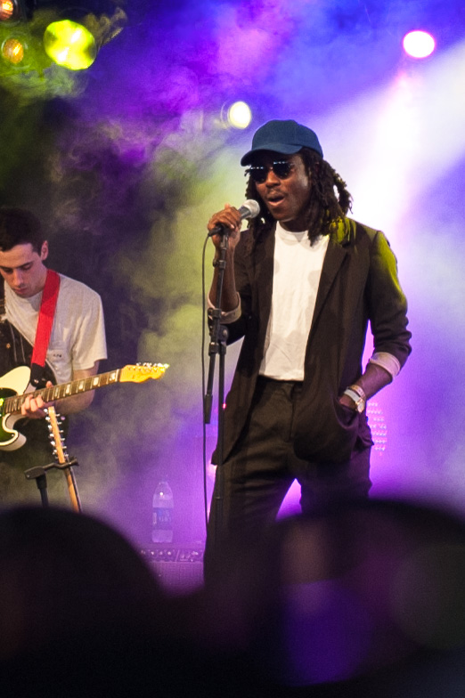 Blood Orange (Dev Hynes) at Way Out West in Gothenburg, Sweden, August 2014